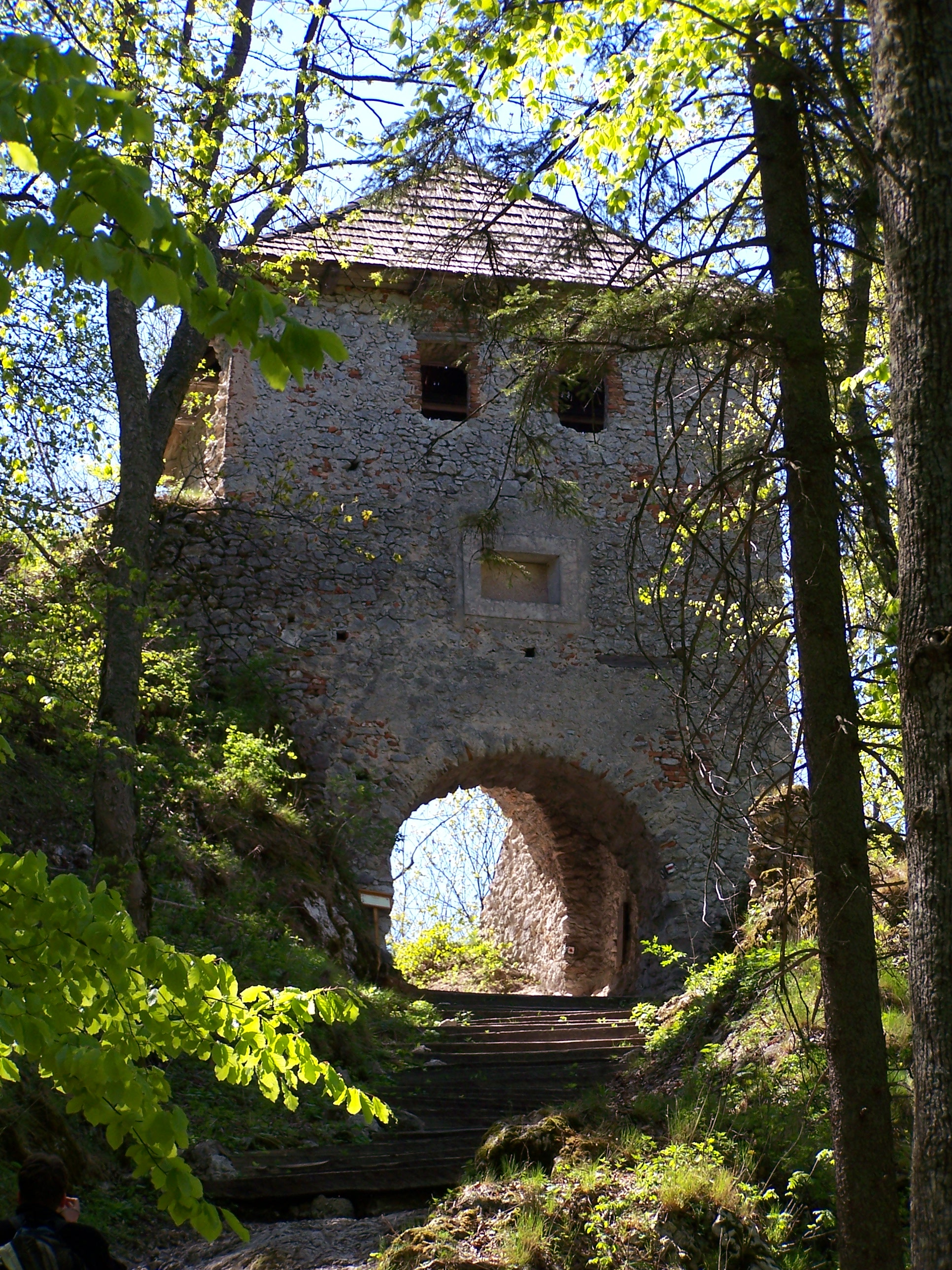 Gate of Castle Muráň.